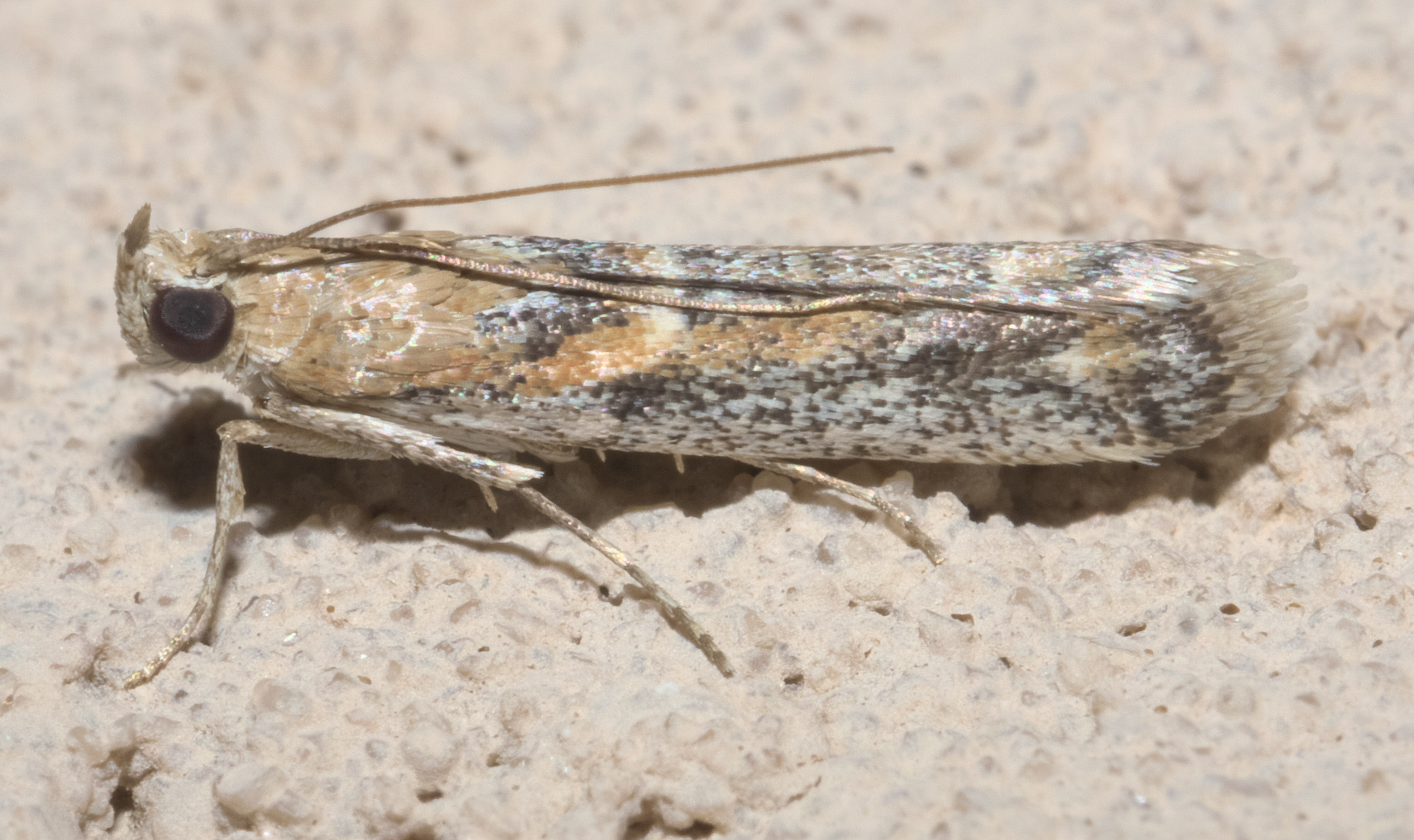 Ancylosis morrisonella, Hodges #5916, Size: 9.2 mm, ID Confidence: 90